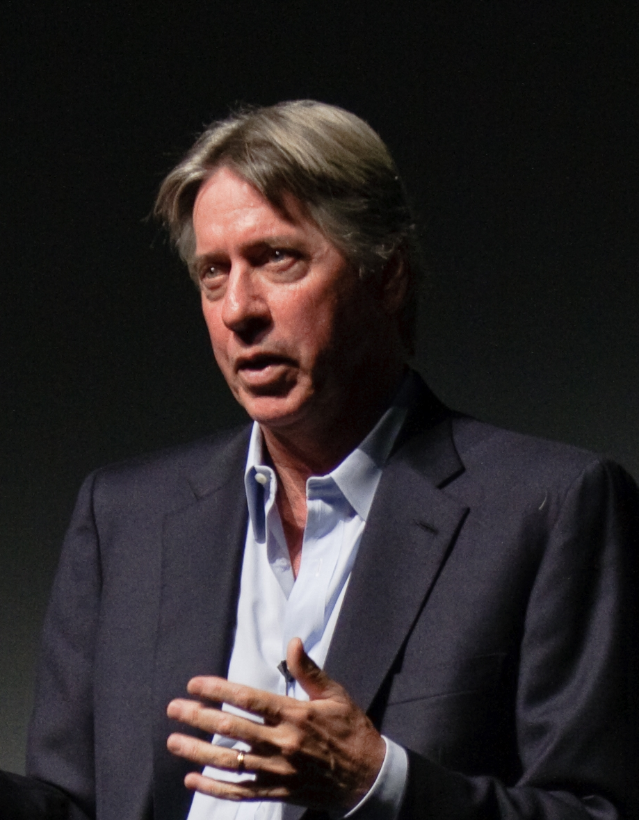 Composer Alan Silvestri speaking at the Carmel Art & Film Festival in 2009.